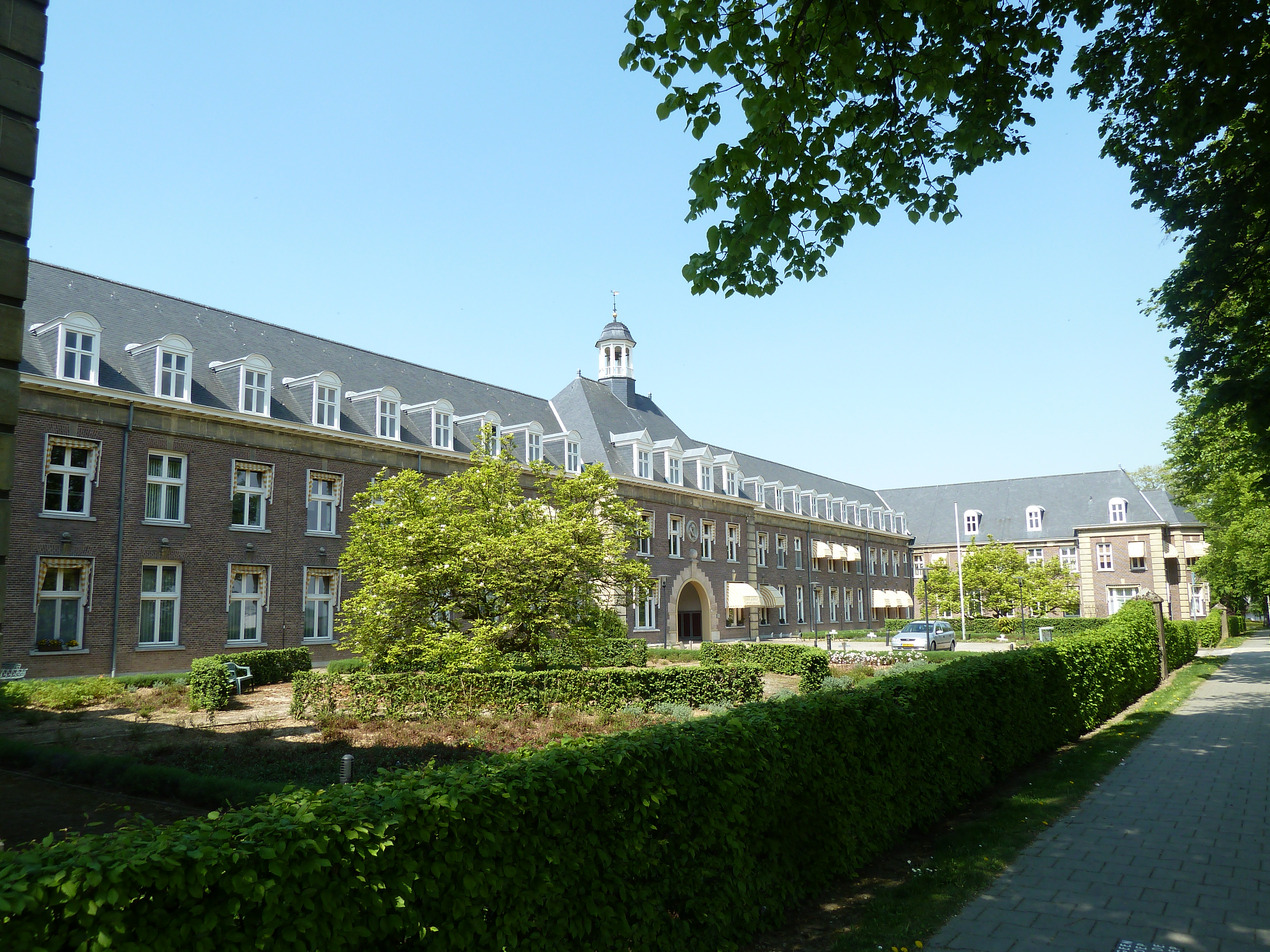 Zandweg 180, Heerlen, Limburg, the Netherlands